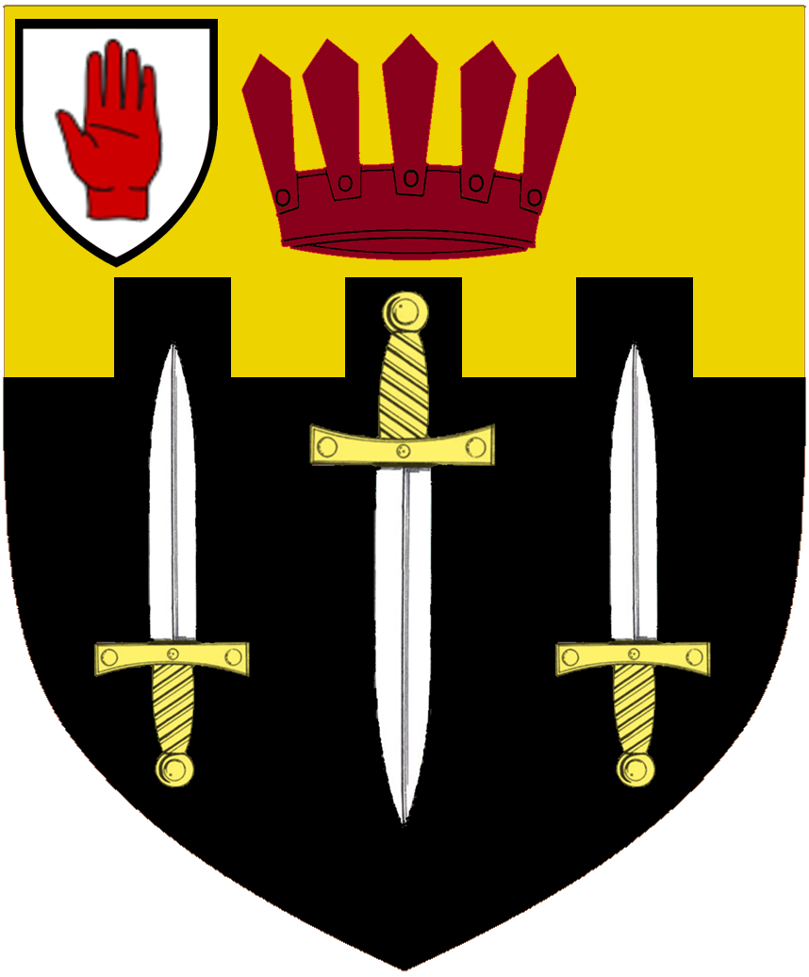 Shield of arms of the Rawlinson baronets of North Walsham